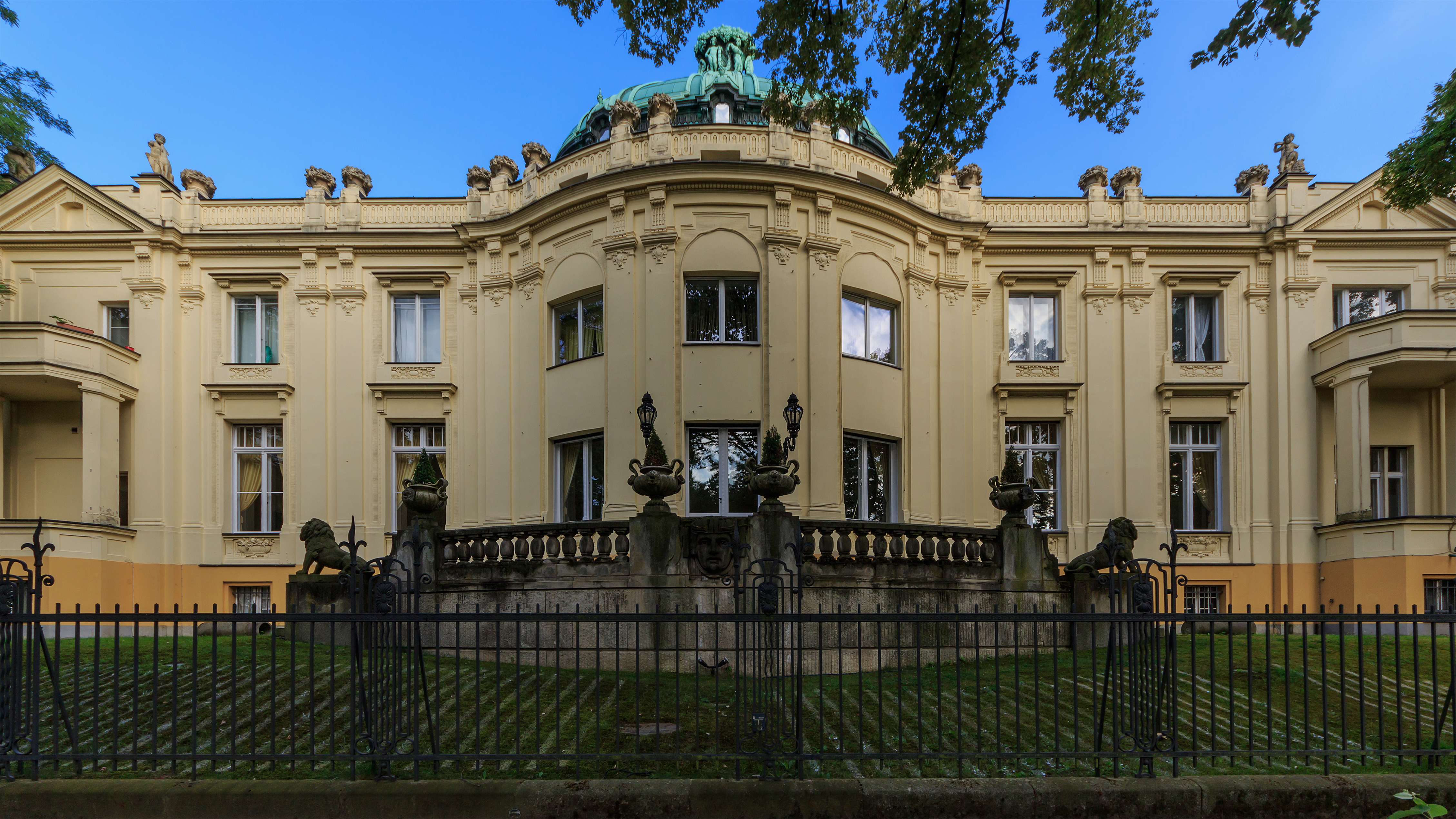 Löwenpalais Grunewald in Berlin (Germany)